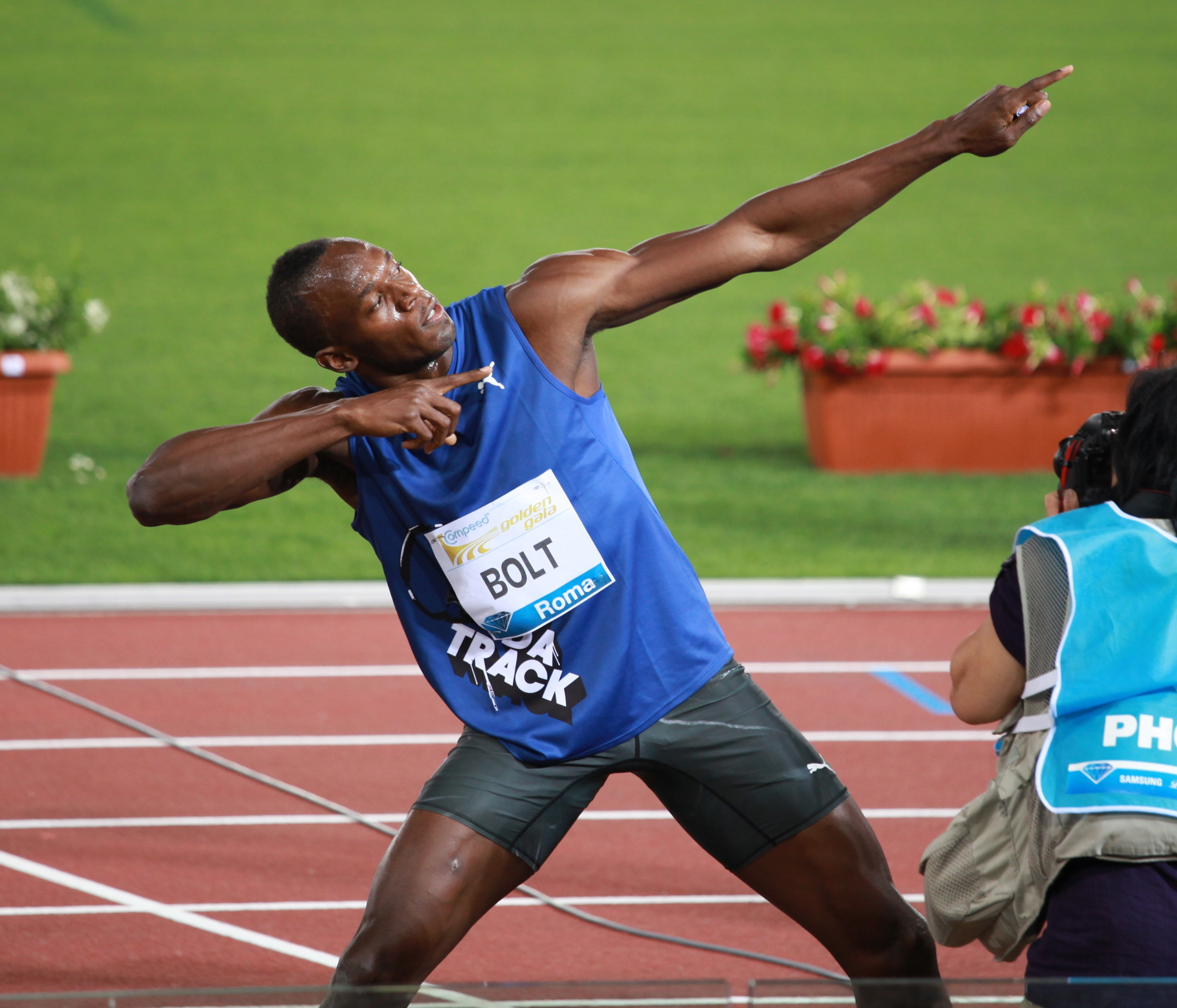 Usain Bolt - Golden Gala - Rome, Italy - 26 May 2011